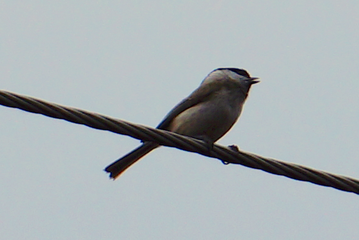 This photo was uploaded during the creation of the first wikitown in Bulgaria – WikiBotevgrad.